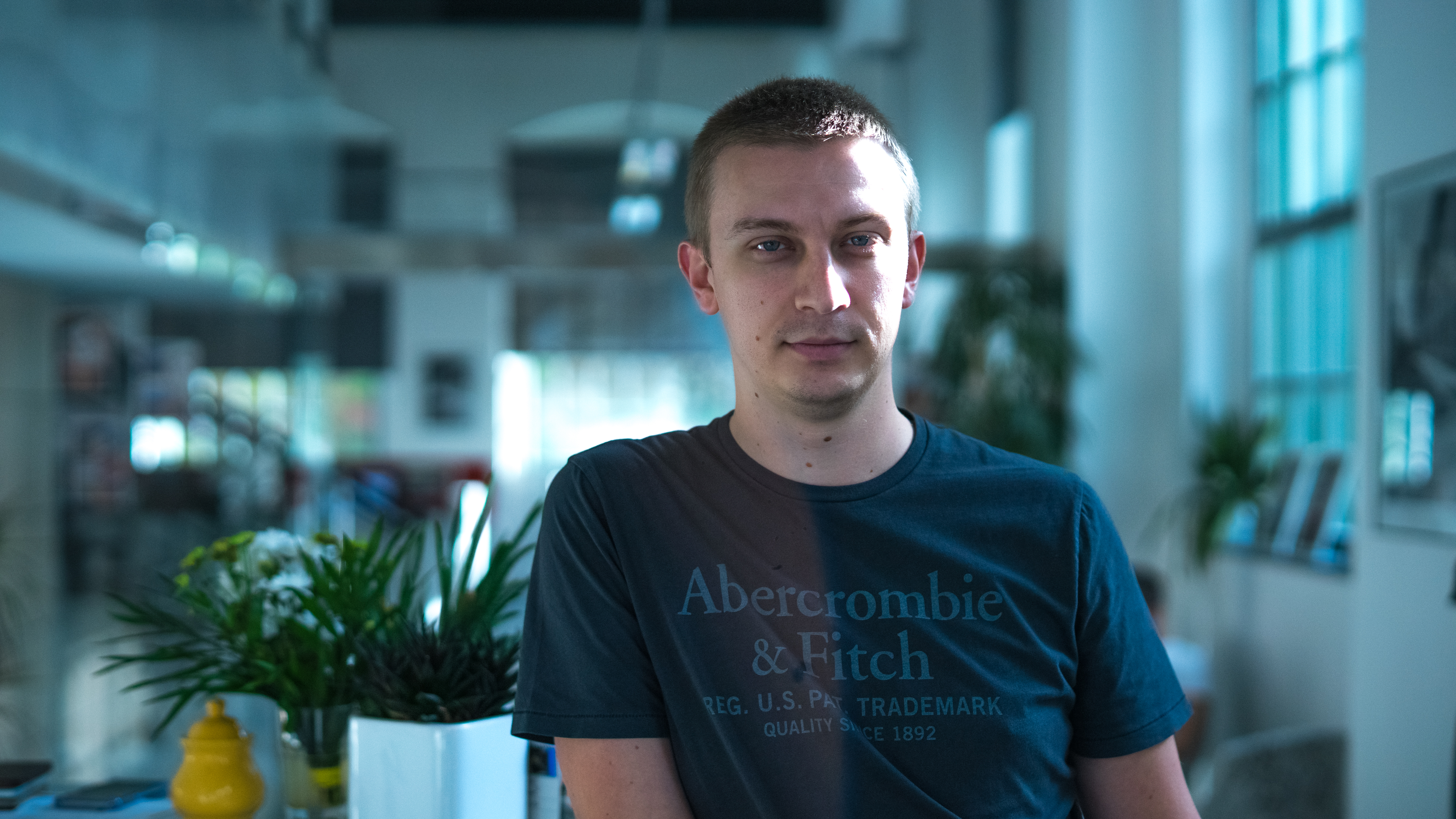 Lukas Hakos Portrait